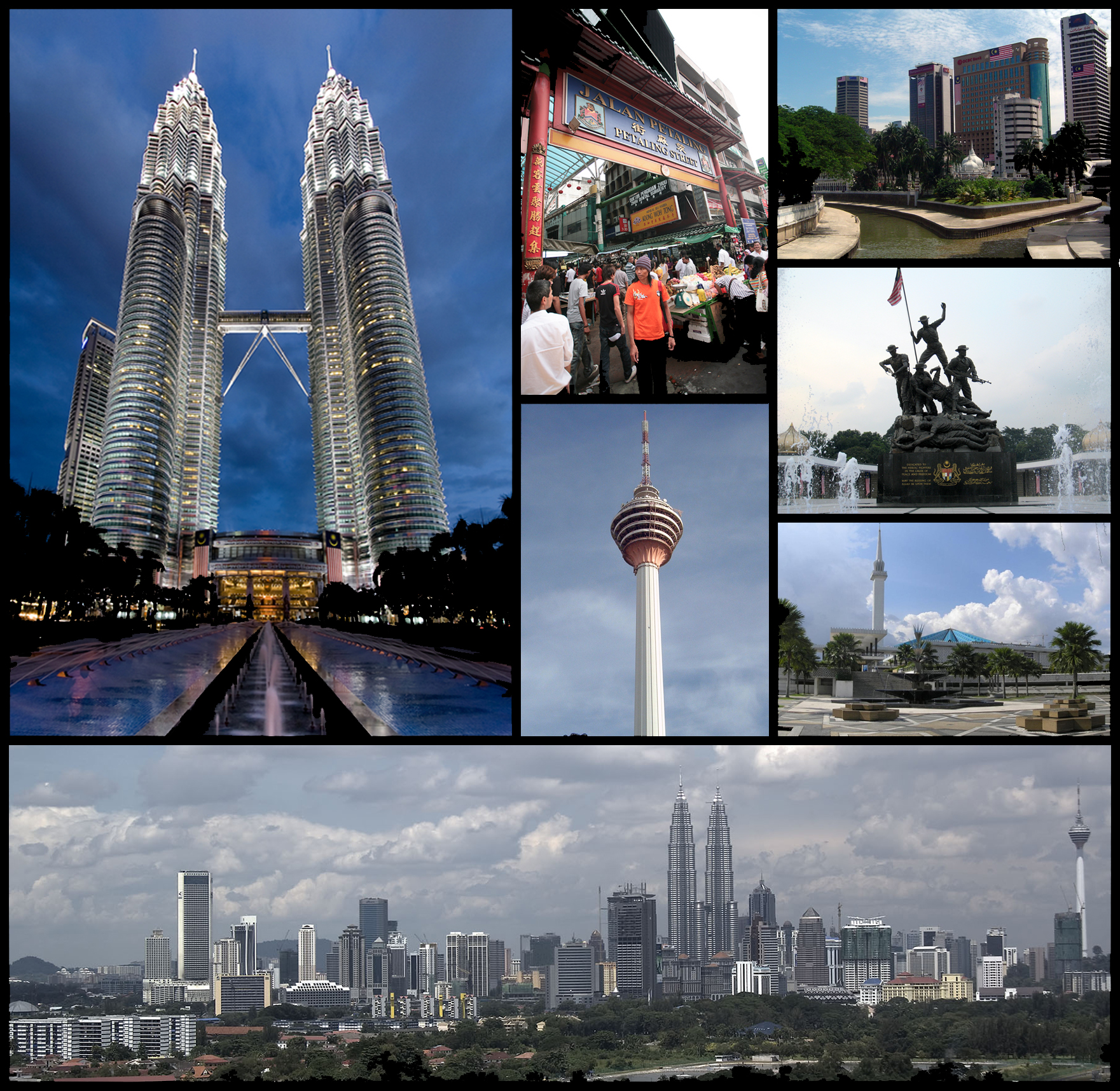 A composite image of icons of Kuala Lumpur and its skyline.